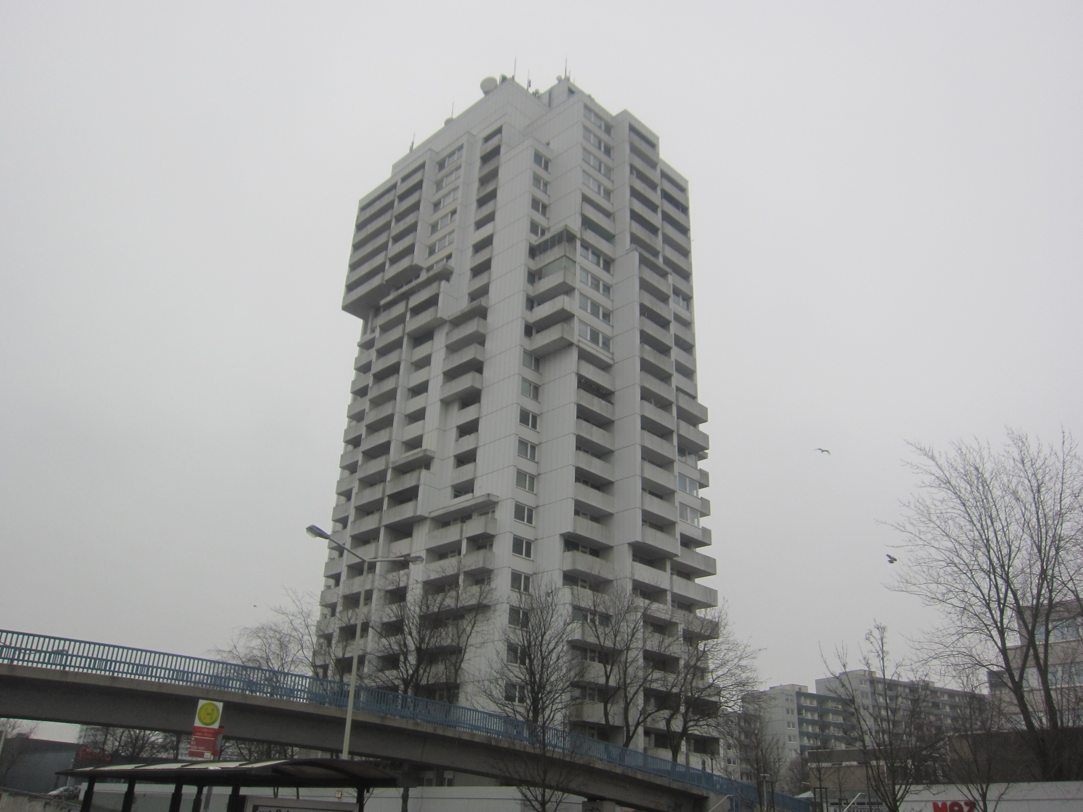 White high-rise in Kiel-Mettenhof